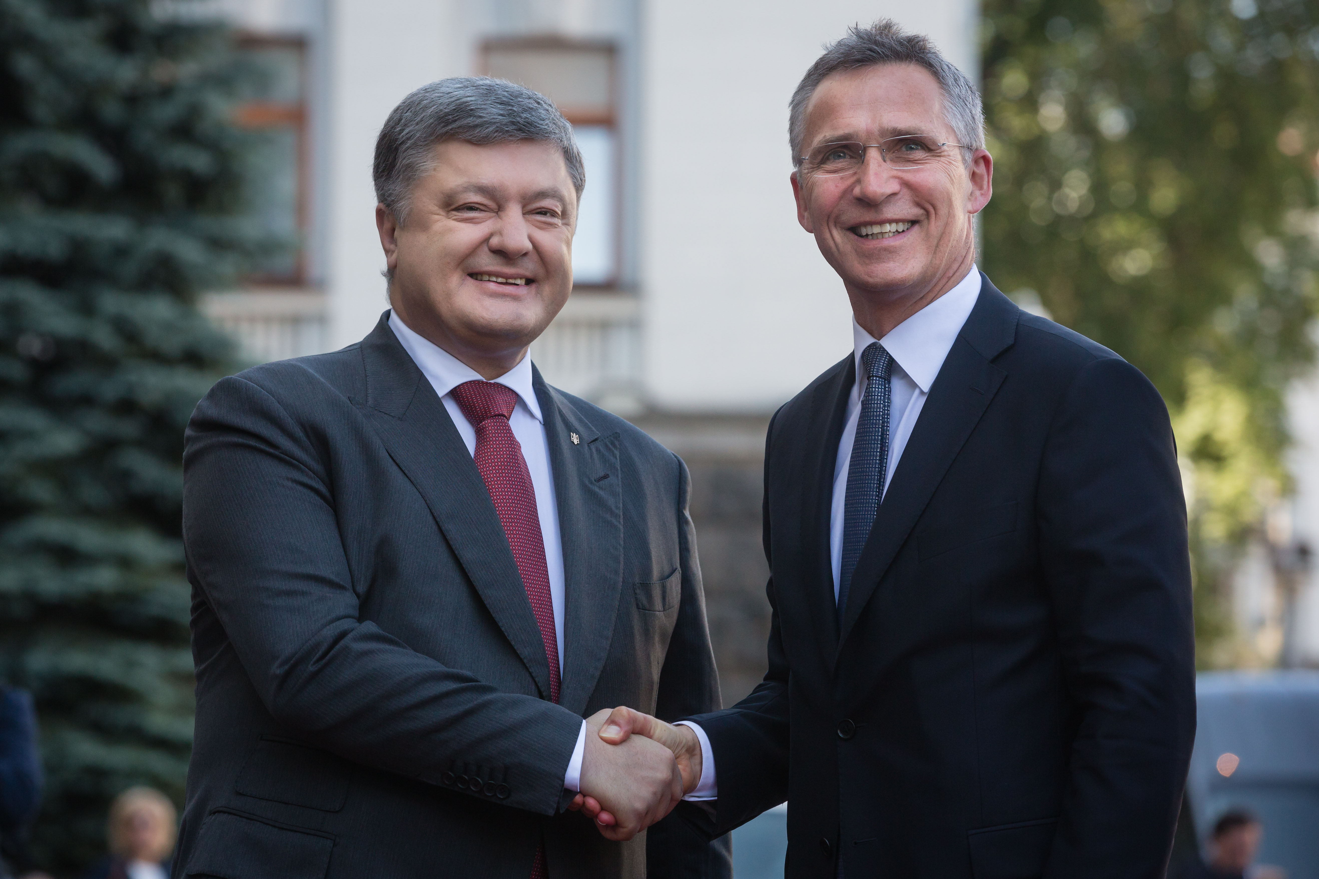 Ukraine – NATO Commission chaired by Petro Poroshenko